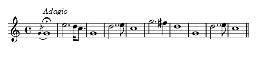 Traditional Alp Horn Theme which inspired J. Brahms for the Horn Solo in his 1st symphony. Music engraved with lilypond